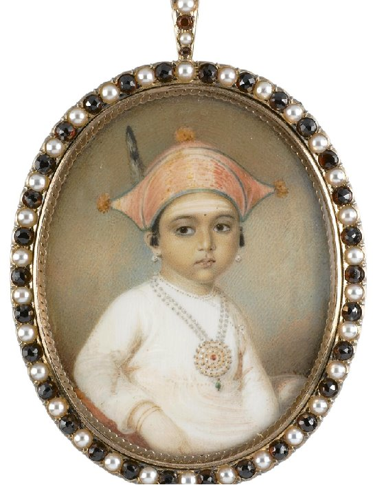 Portrait of Mooda Maji of Coorg. Watercolor on ivory miniature. 2.9 x 2.2 inches (7.3 x 5.7 cm).